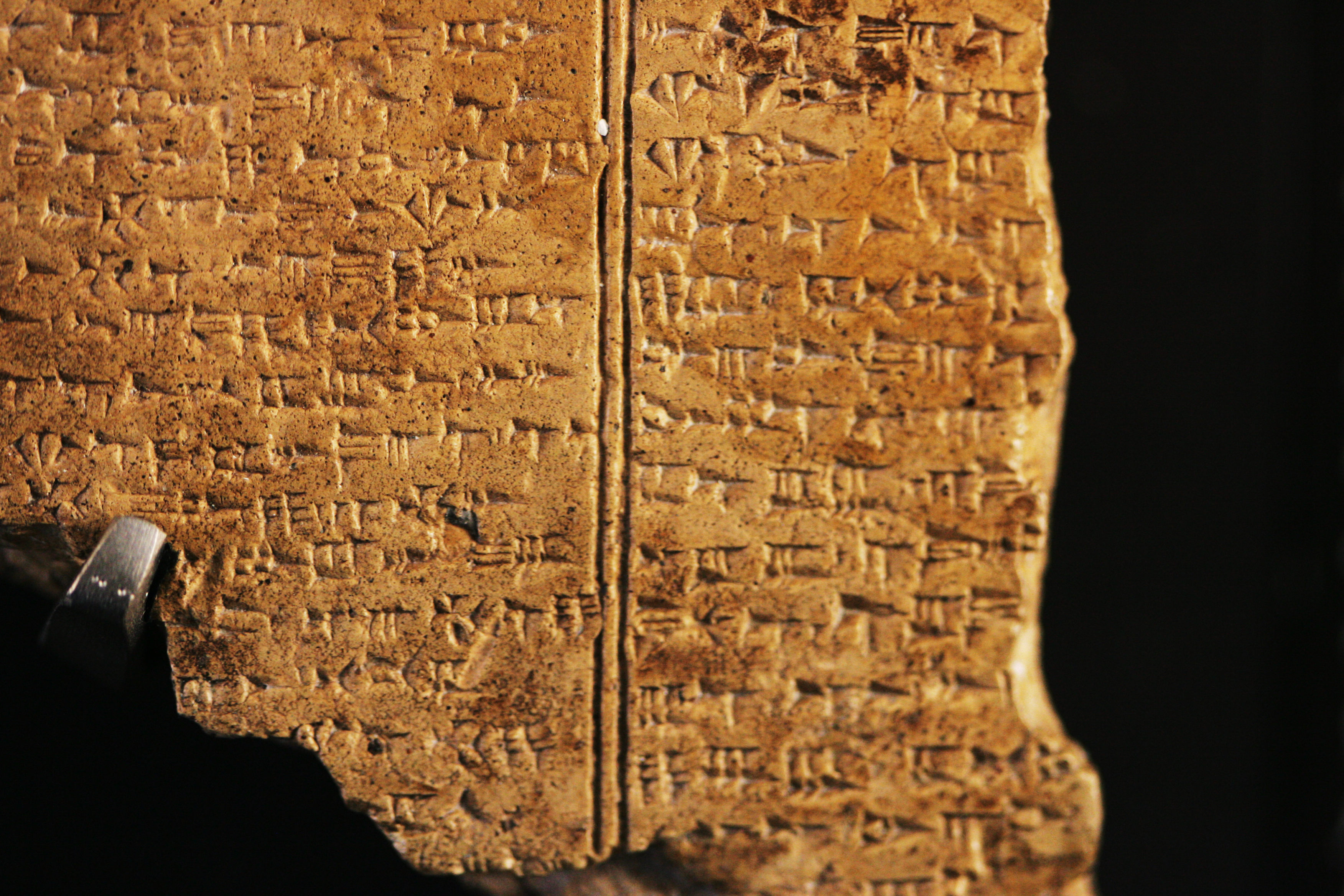 Artist Unknown artistDescription Ugaritic language, Cuneiform script Baal Epic. Ball and death. [1] 14th century BC, Display 12Collection Louvre Museum (Inventory)Native nameMusée du LouvreParent institutionÉtablissement public du musée du Louvre LocationParisCoordinates48° 51′ 37.42″ N, 2° 20′ 15.36″ E Established1793 Web page control : Q19675 VIAF: 257711507 ISNI: 0000 0001 2260 177X ULAN: 500125189 LCCN: n80020283 NLA: 35912436 WorldCat institution QS:P195,Q19675Current location Sully Rez-de-chaussée Levant : Syrie côtière, Ougarit et Byblos Salle BAccession number AO 16641, AO 16642Credit line Found by C. Schaeffer in 1930-31Source/Photographer Rama Ugaritic language, Cuneiform script Baal Epic. Ball and death. [1] 14th century BC, Display 12